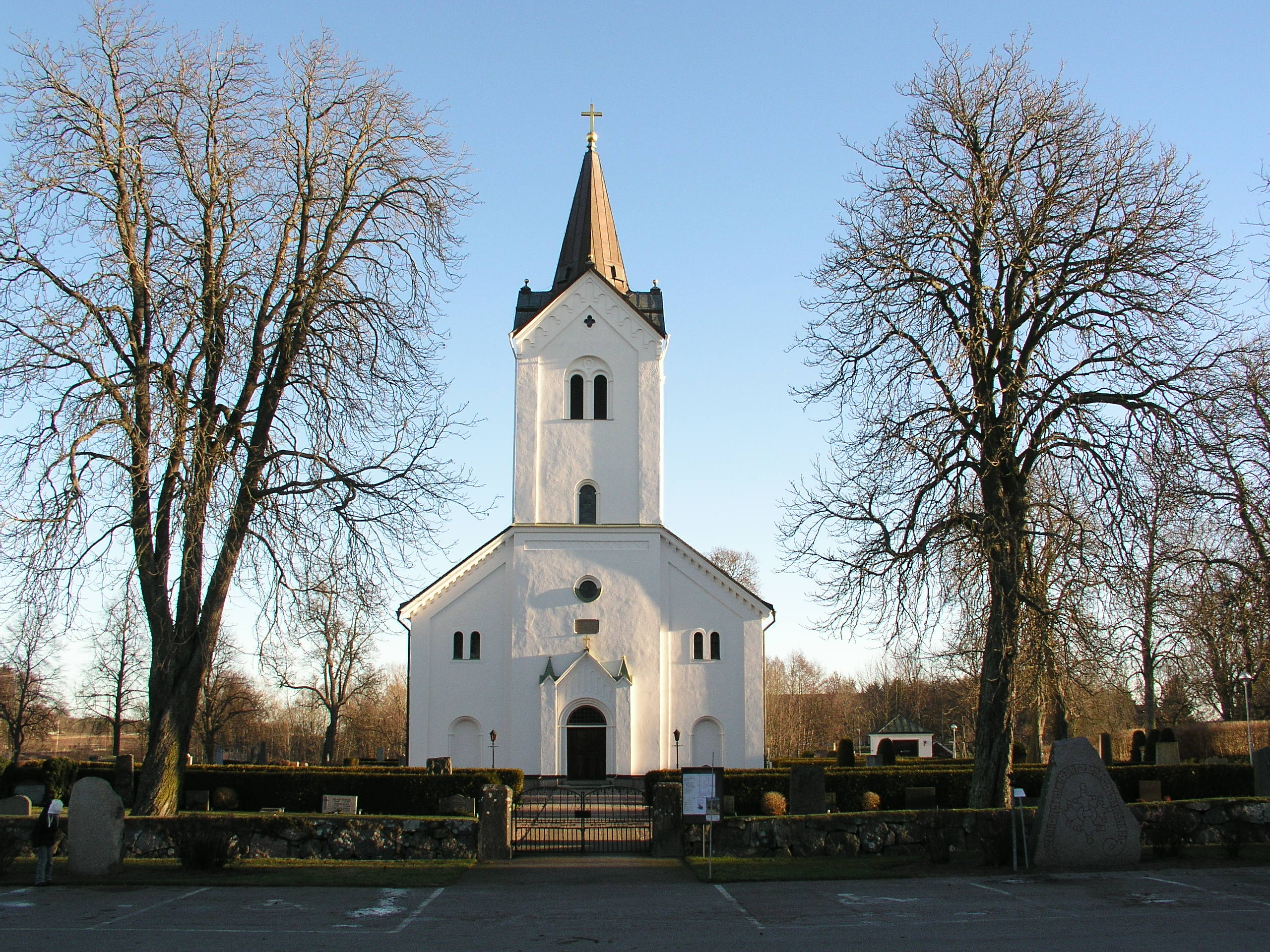 Sjögesta church. Entrance side.